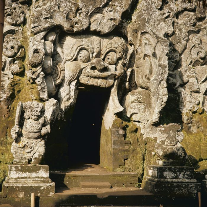 The Pura Goa Gajah or Elephant Cave